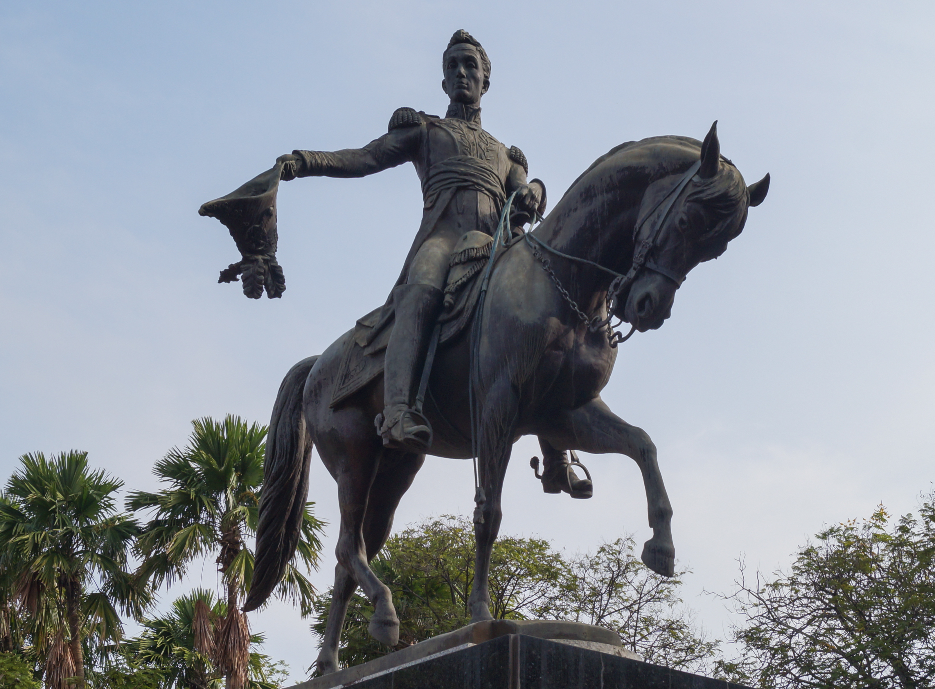 Monument Simón Bolívar. Bolívar's square, Maracaibo.